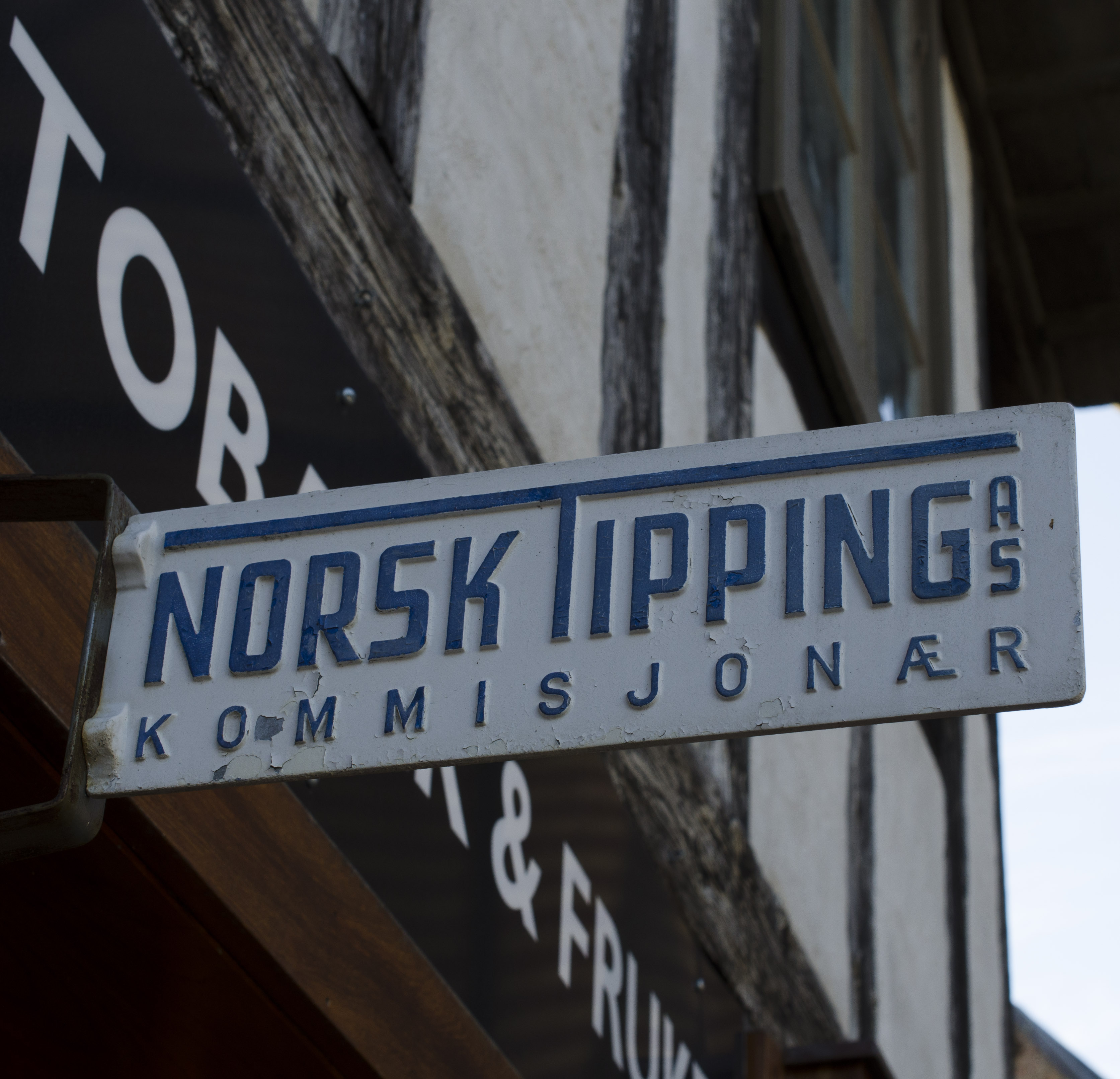 Antique wall-mounted "Norsk Tipping" (Norwegian lottery service) sign on a kiosk at the Norwegian Museum of Cultural History.